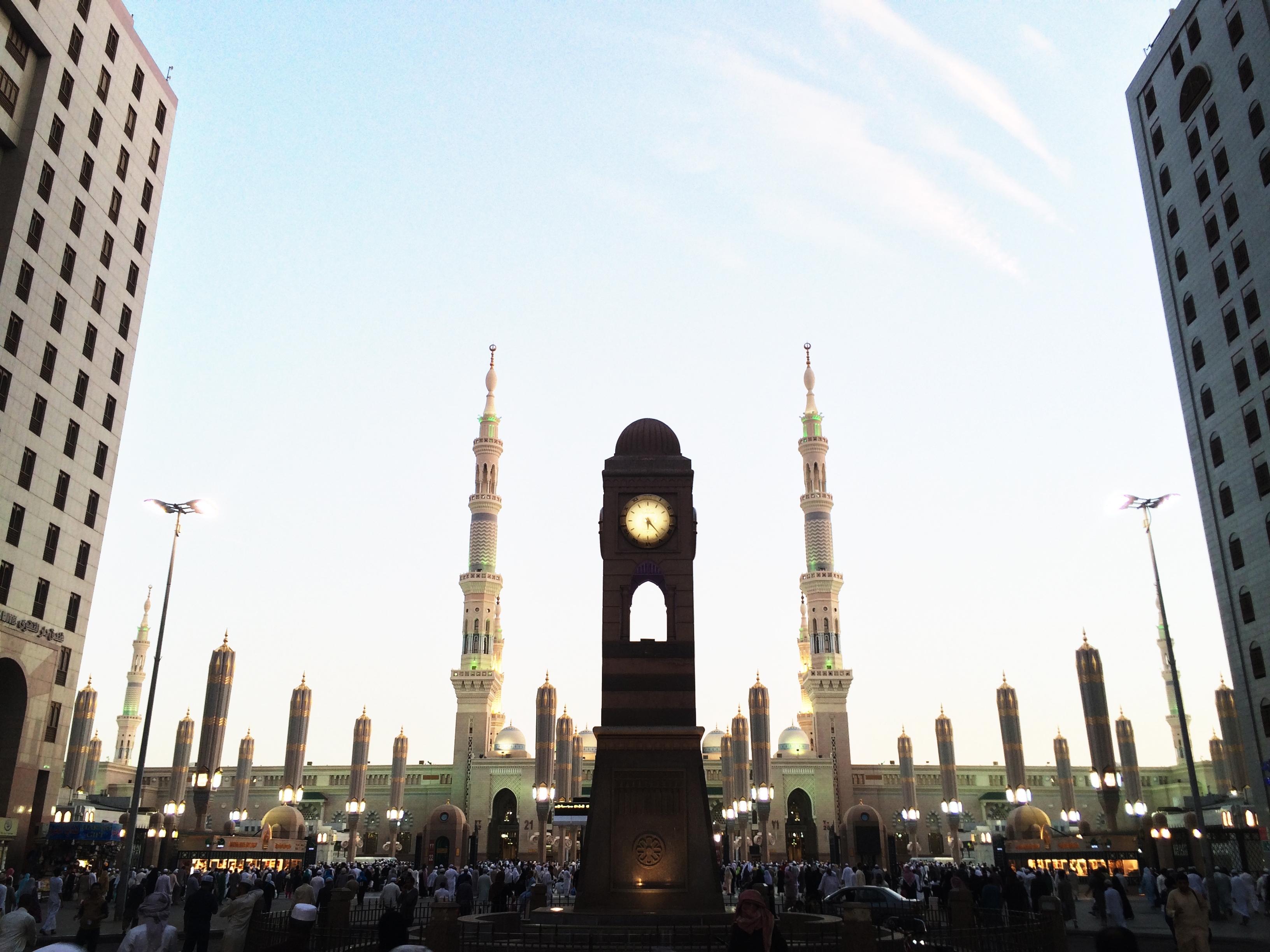 View of Masjid-e-Nabawi Gate 21, 22 as seen from the north with bab e Malik al-Fahad in the background with two minarets